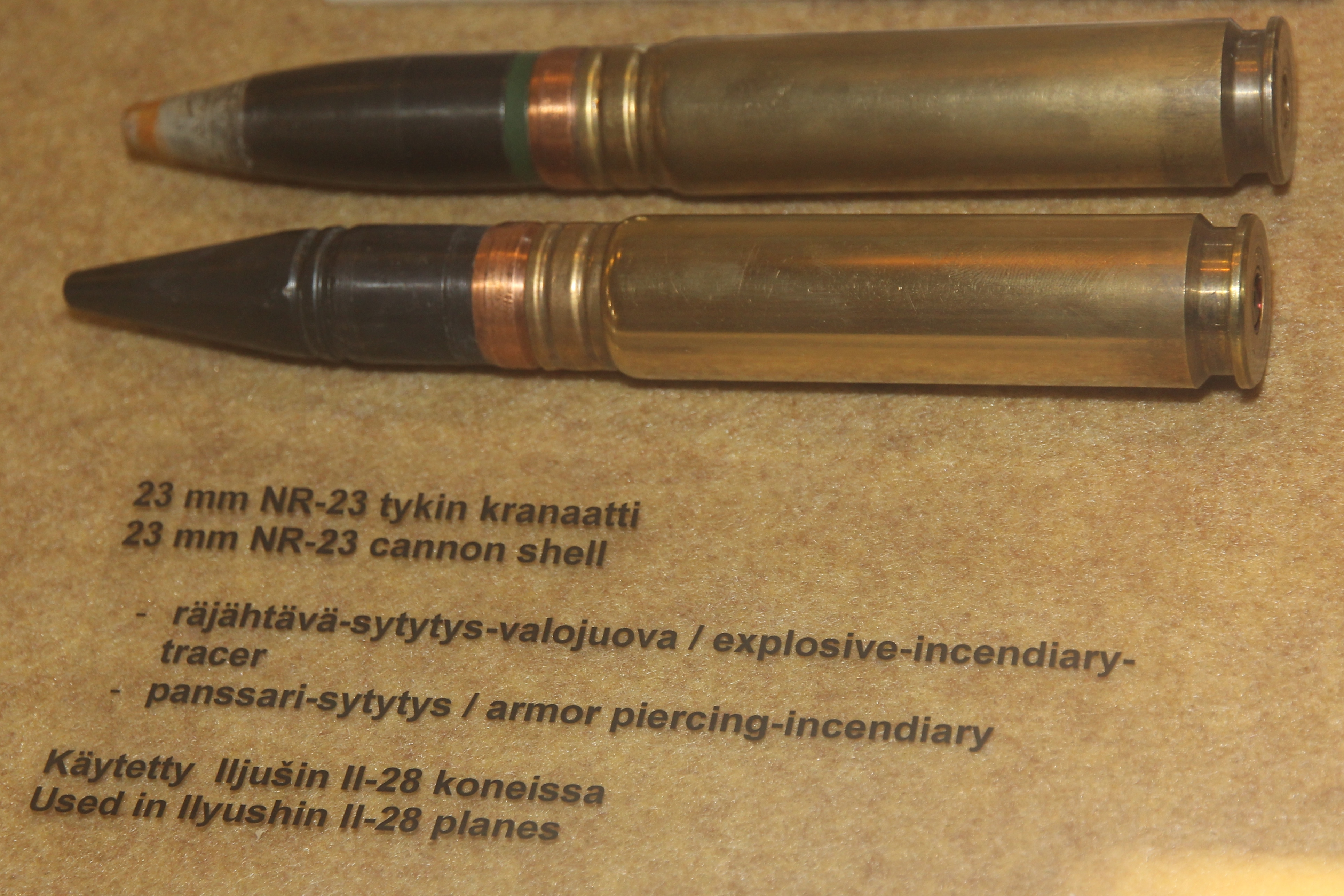 Soviet NR-23 cannon 23 mm shells in the Aviation museum of Central Finland.